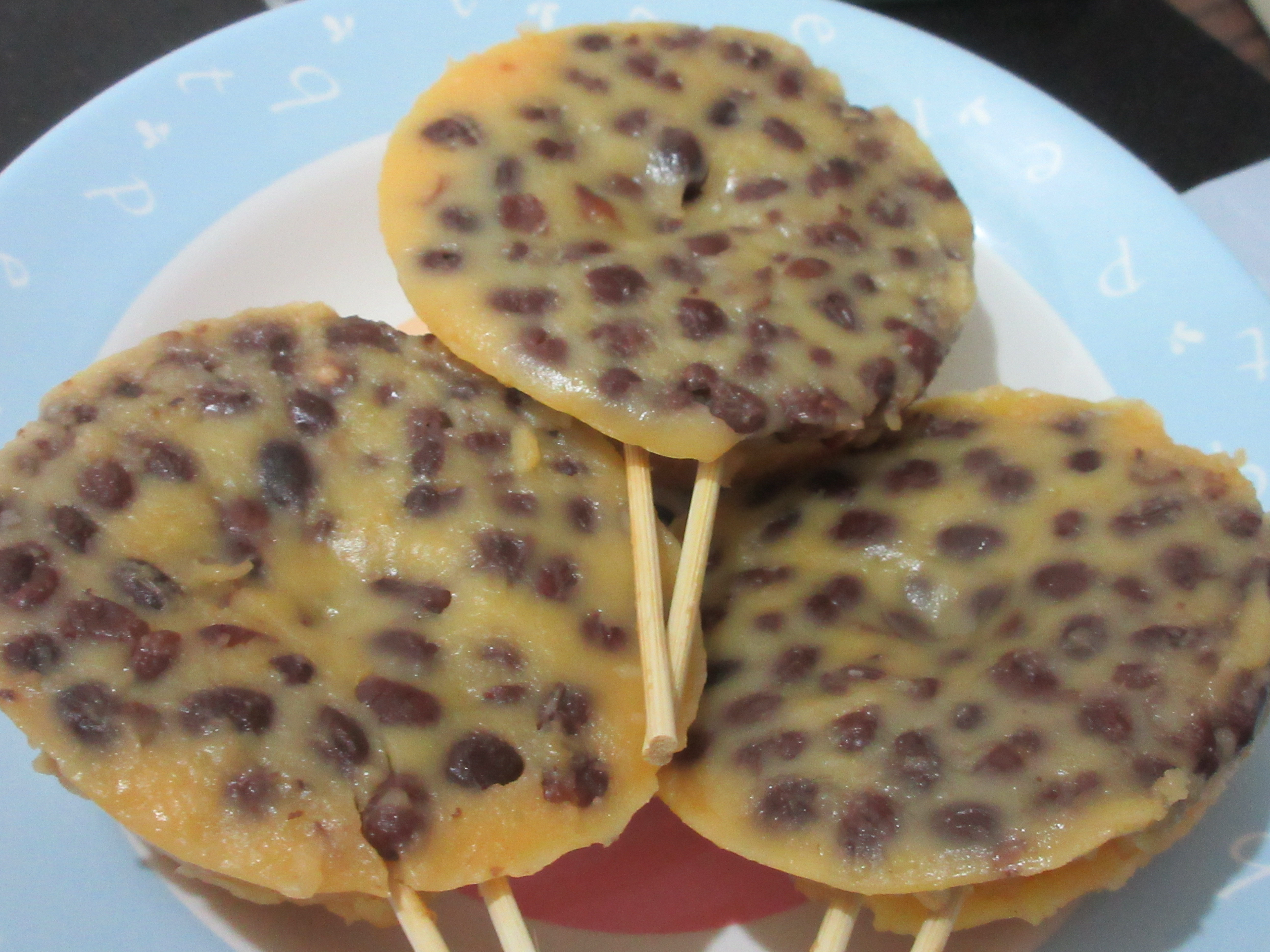 HK food 缽仔糕 Put chai ko 紅豆砵仔糕 Steamed Red Bean Rice Pudding cakes in May 2017